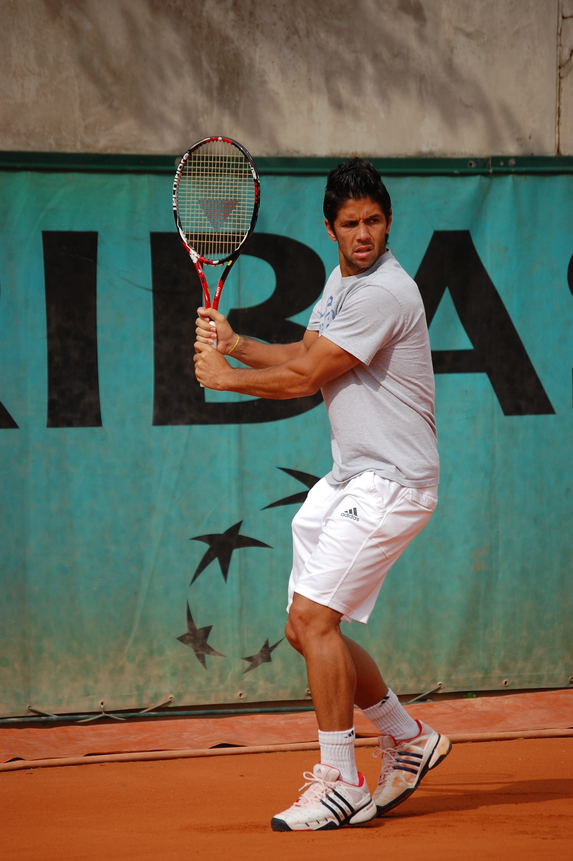 Fernando Verdasco training in Roland Garros, 2009 French Open